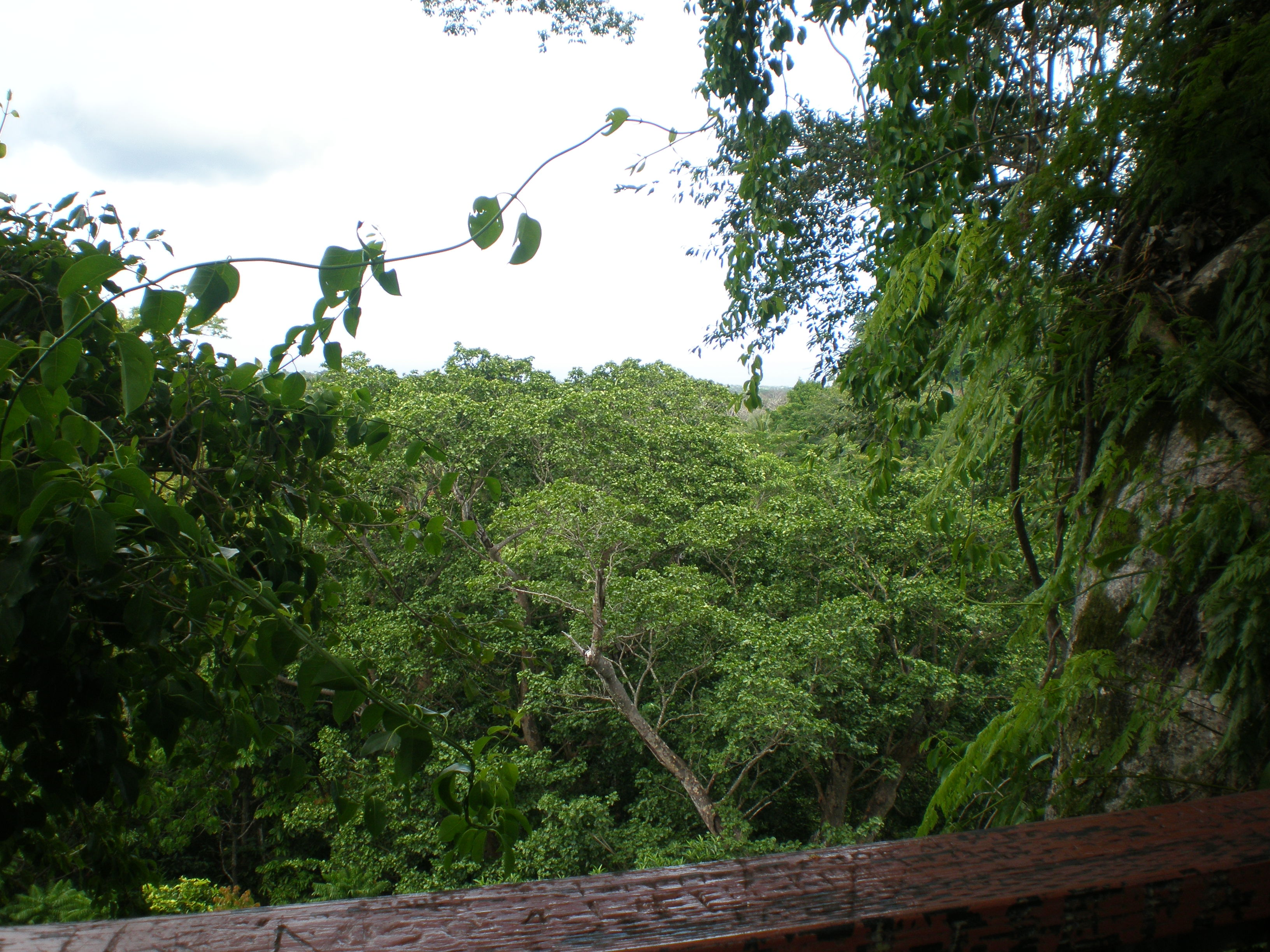 View from the top of Falealupo rainforest, Savai'i island, Samoa.